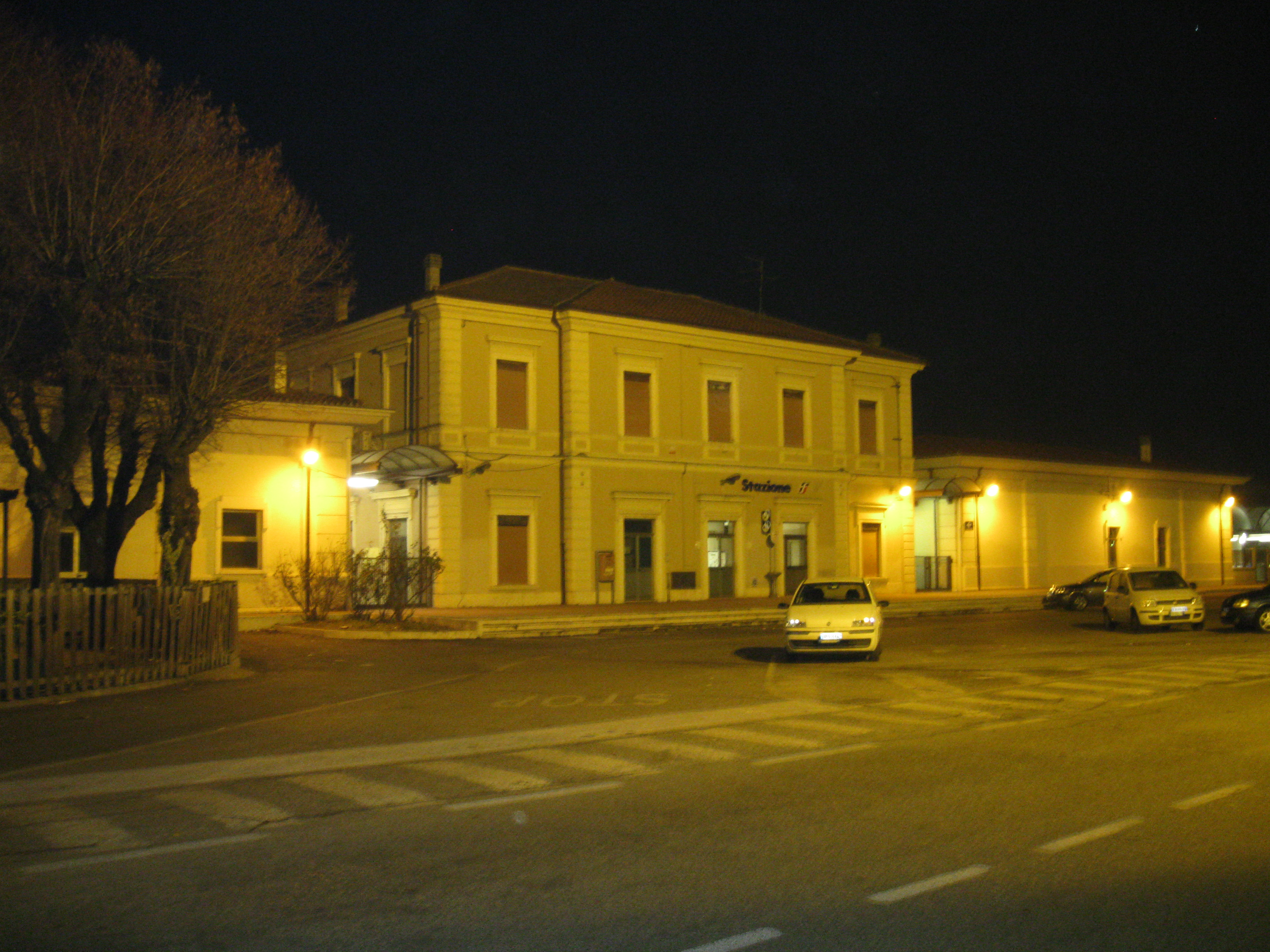 Train station in Isola della Scala, Italy